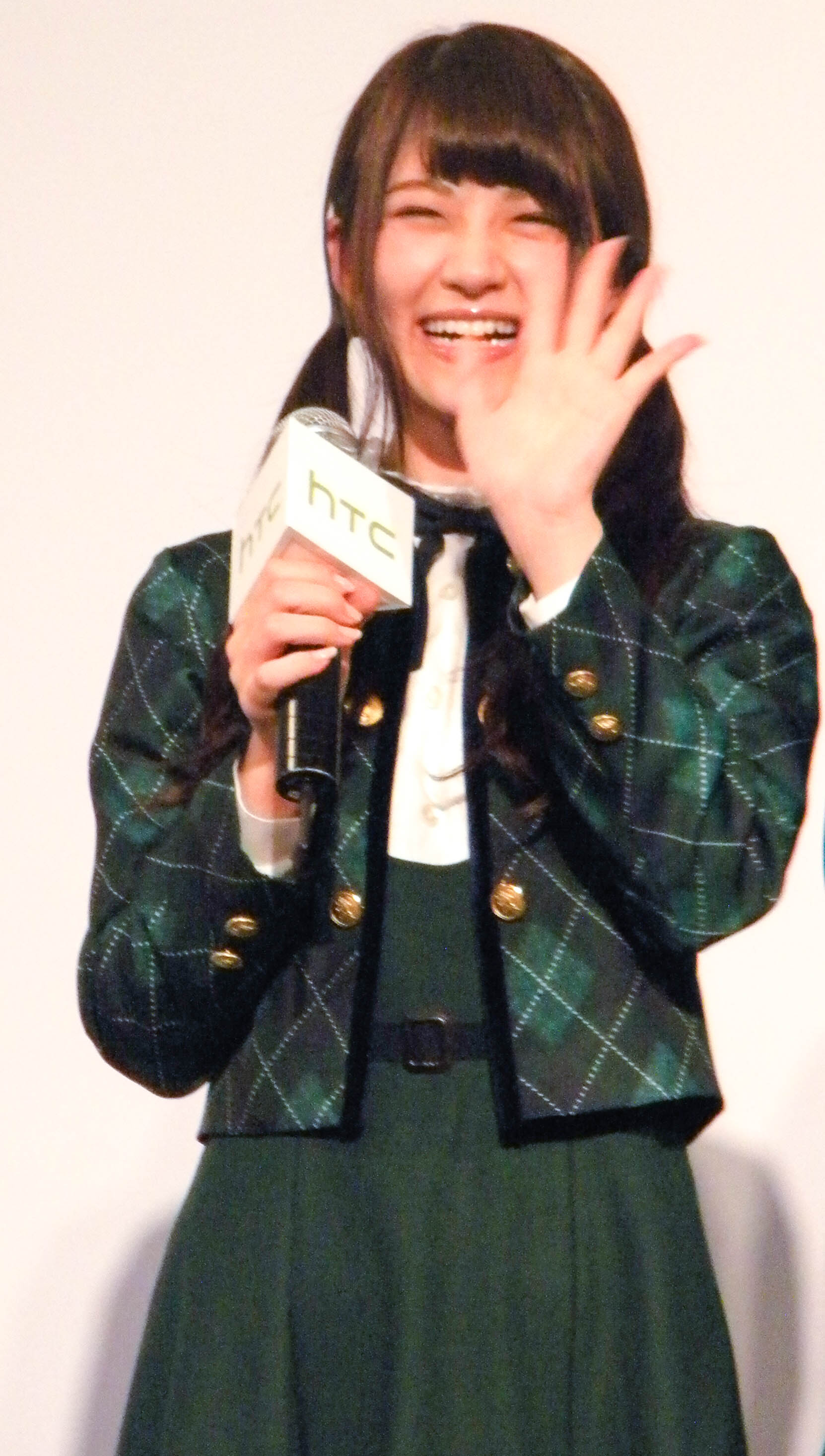 Yumi Wakatsuki (Nogizaka46) on HTC and Chunghwa Telecom HTC Butterfly 2 joint marketing event at Taipei, Taiwan.